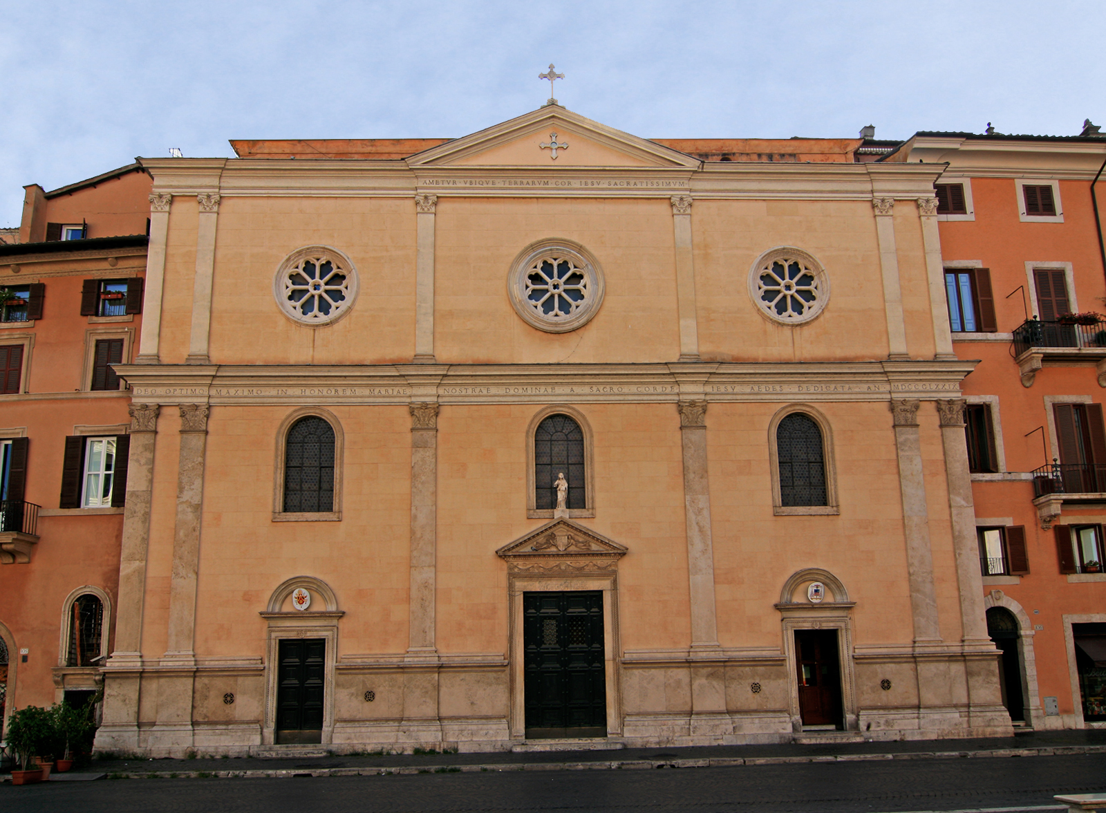 Nostra Signora del Sacro Cuore, Piazza Navona, Rome.